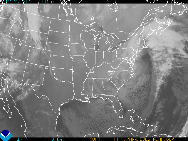 Infrared satellite image taken of Eastern United States